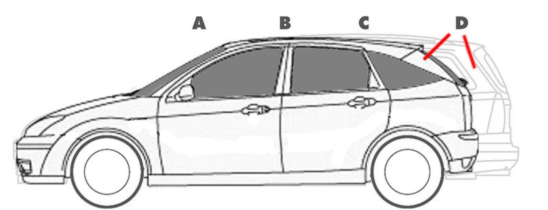 diagram comparing a hatchback and wagon from the same model range